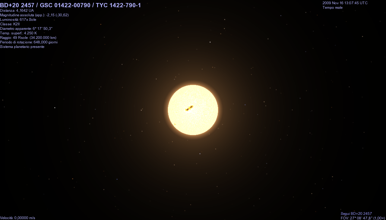 Artistic rendering of star BD+20° 2457, bright K2 giant